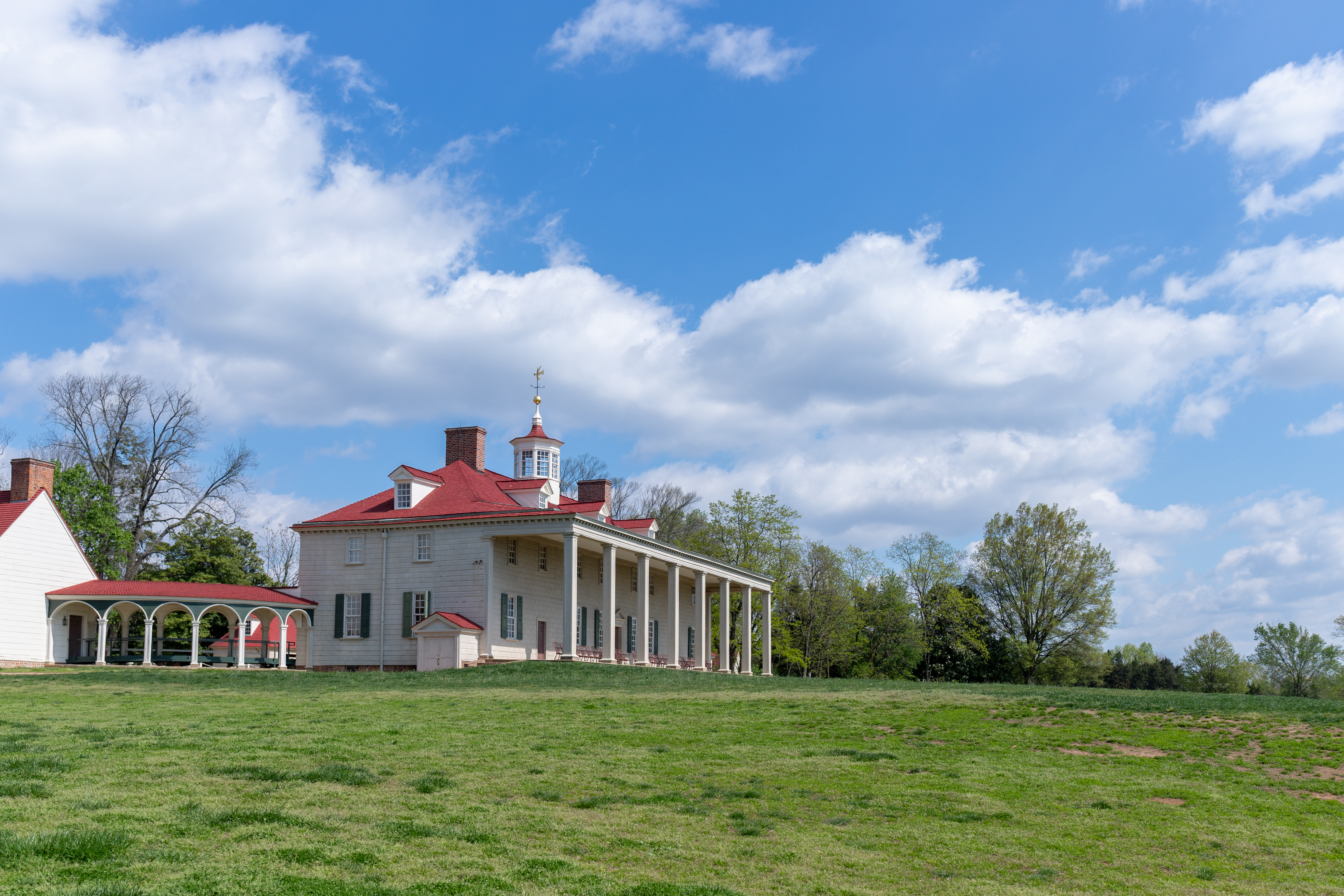 East front of the Mansion facing the Potomac River